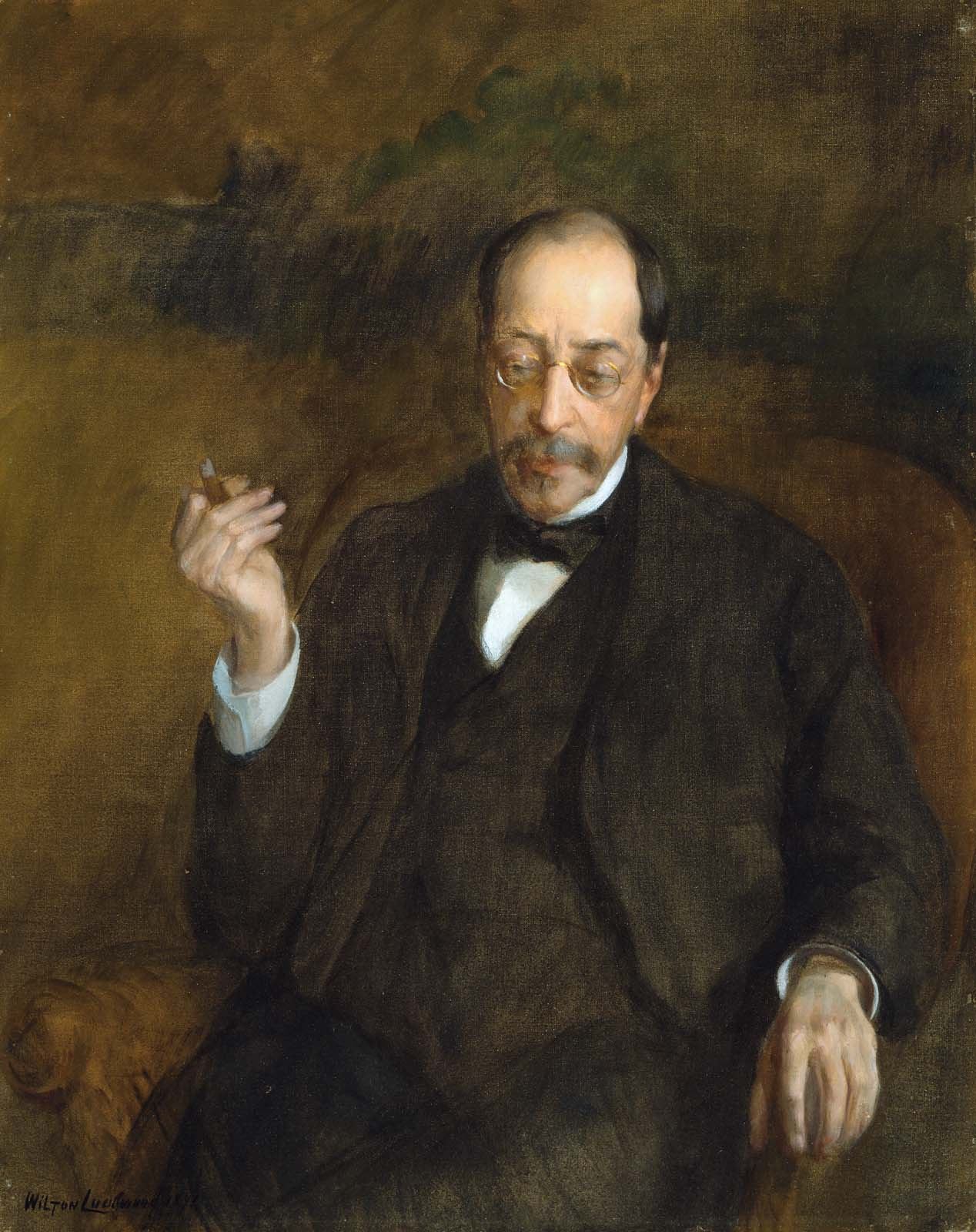 John La Farge oil on canvas 96.2 x 76.52 cm signed b.l.: Wilton Lockwood 1891 The Hayden Collection—Charles Henry Hayden Fund